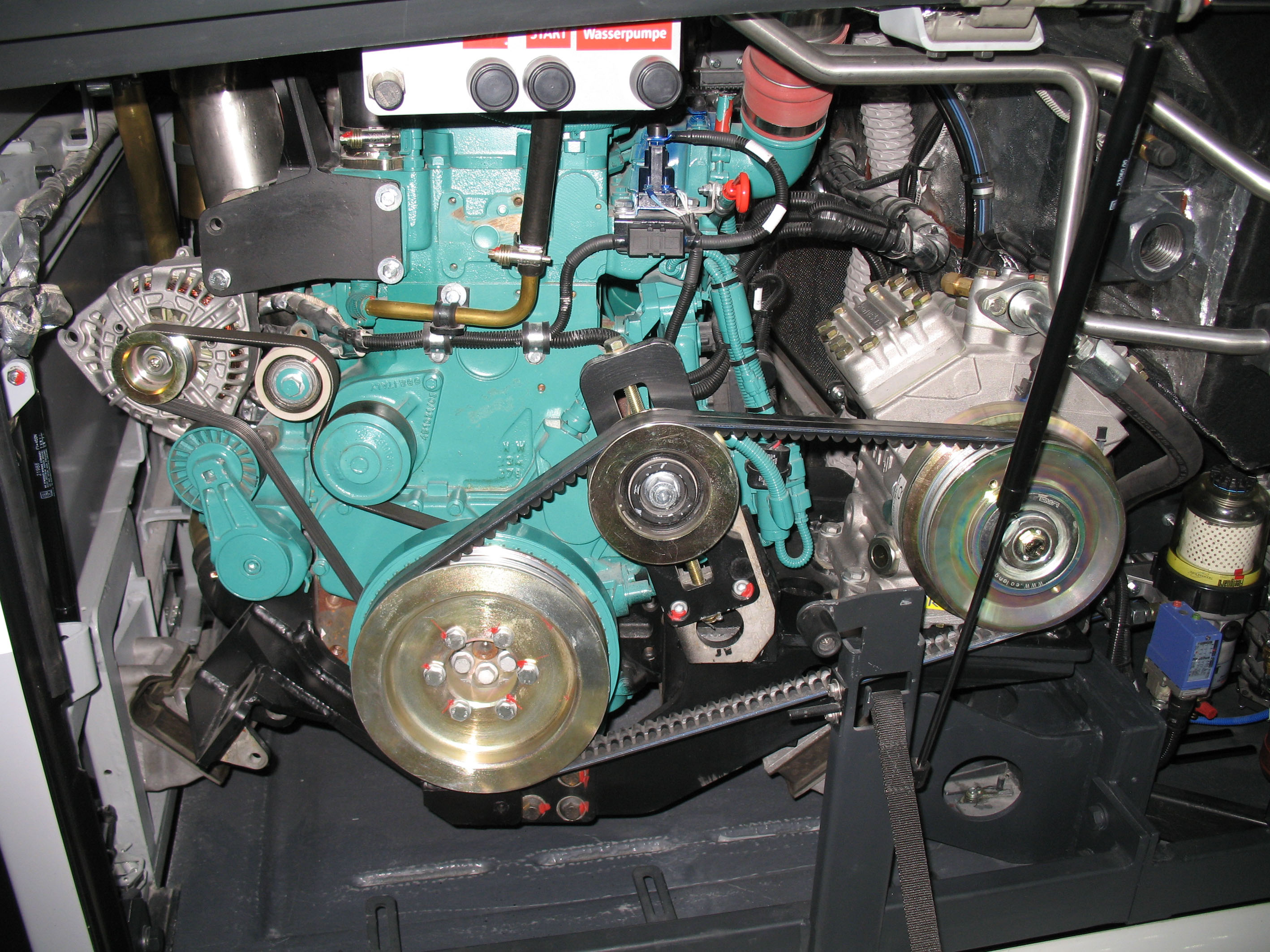 Solaris Urbino 18 Hybrid Vossloh Kiepe city bus engine (Cummins ISB6.7 285H) in Kielce, Poland. Built 2010. Transexpo 2010.